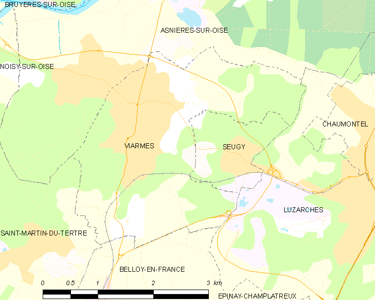 Map of French municipality Viarmes